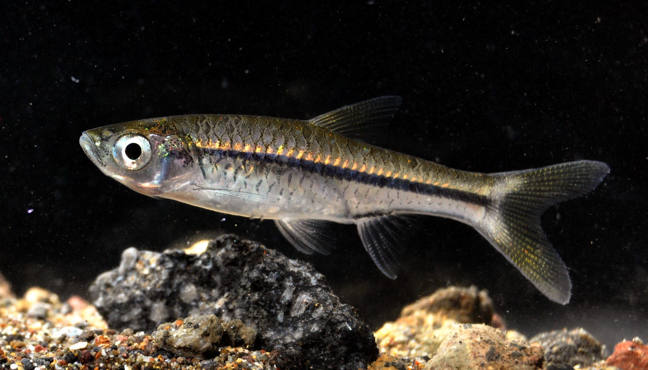 Rasbora argyrotaenia, 33 mm SL (standard length). From Banyumas, Central Java, Indonesia.